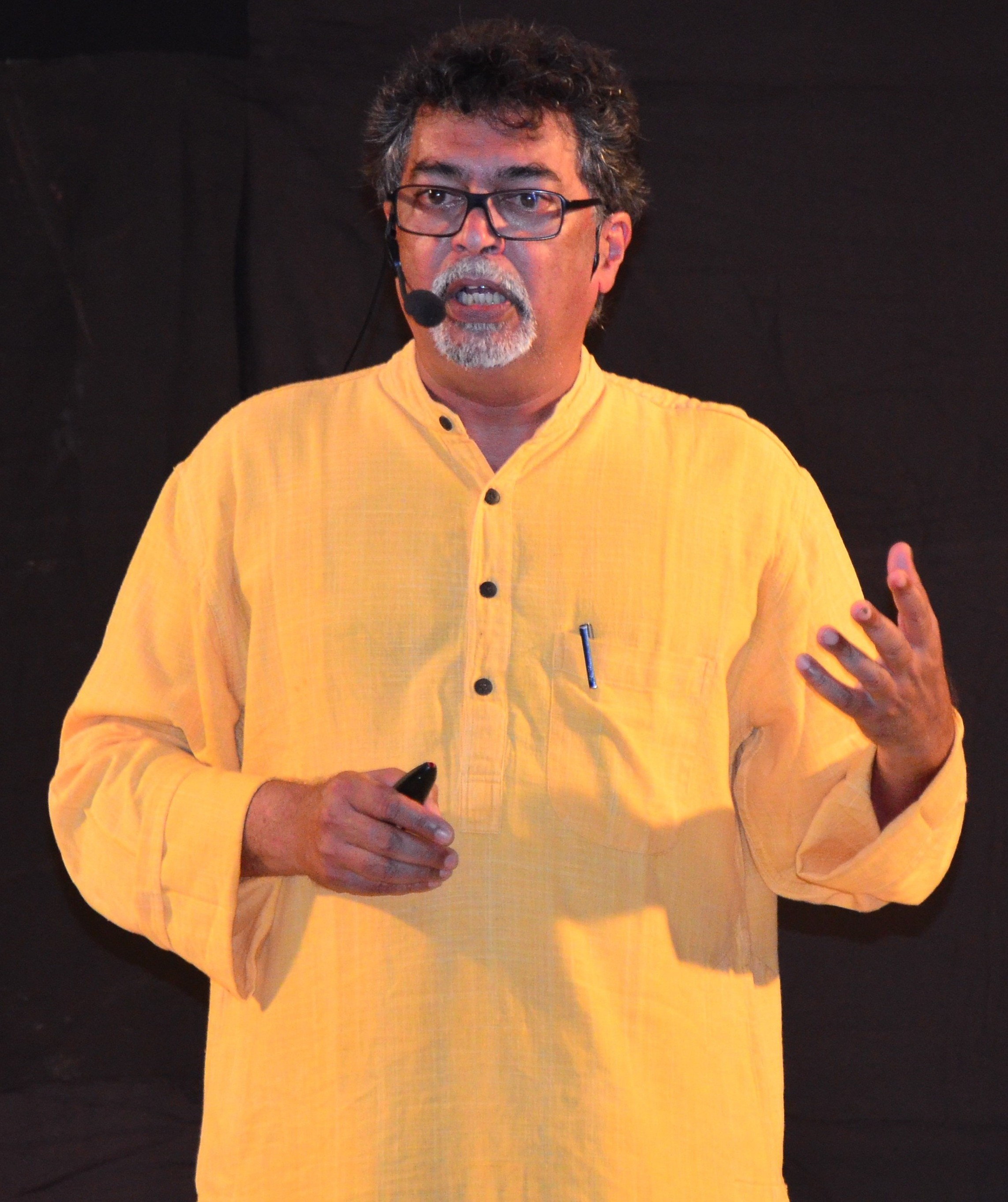 Dr Subodh Kerkar, artist, at TEDxGECSalon: ARTiculate in 2017